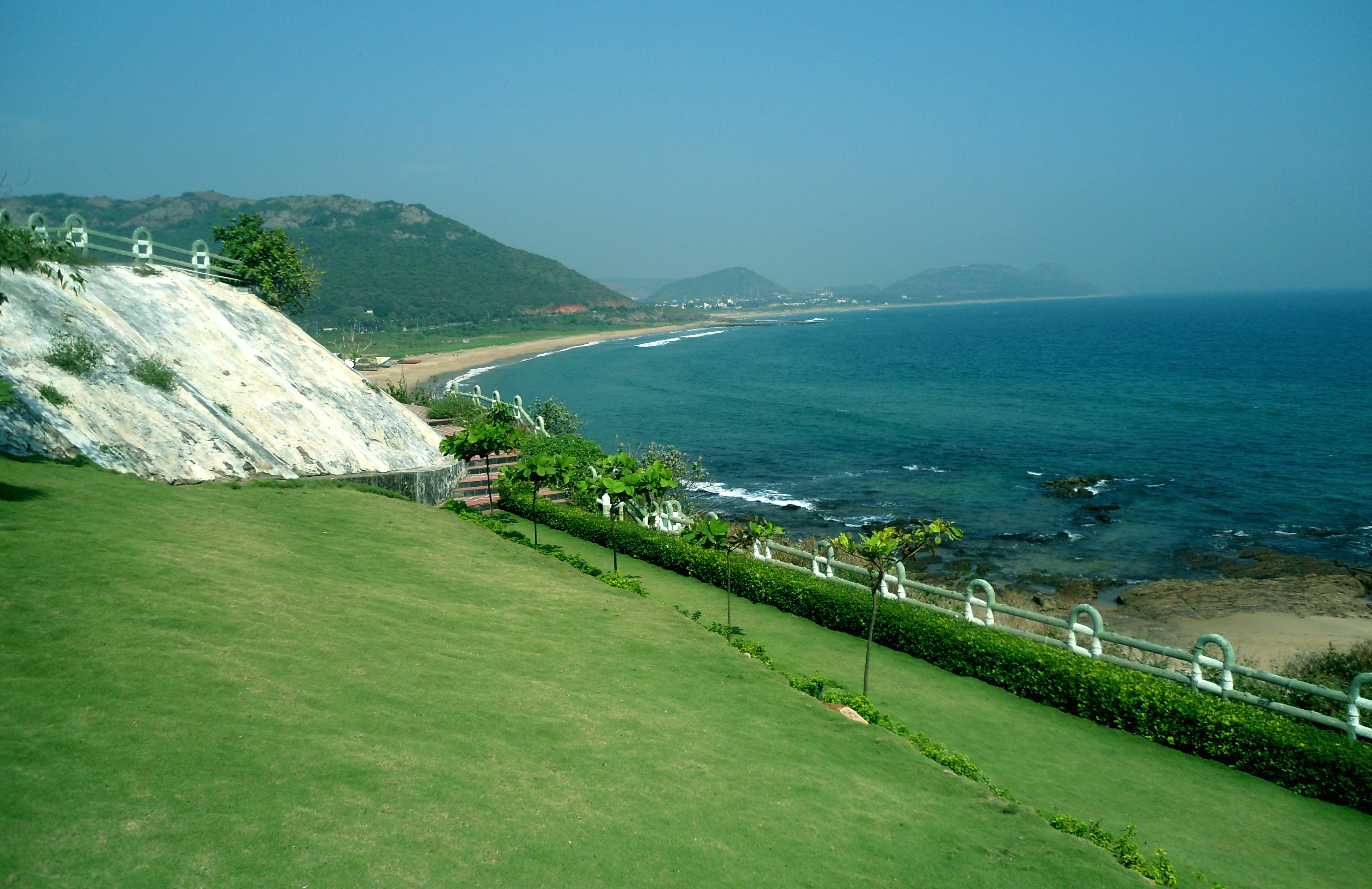 Beach view at Tenneti Park in Visakhapatnam beach Road